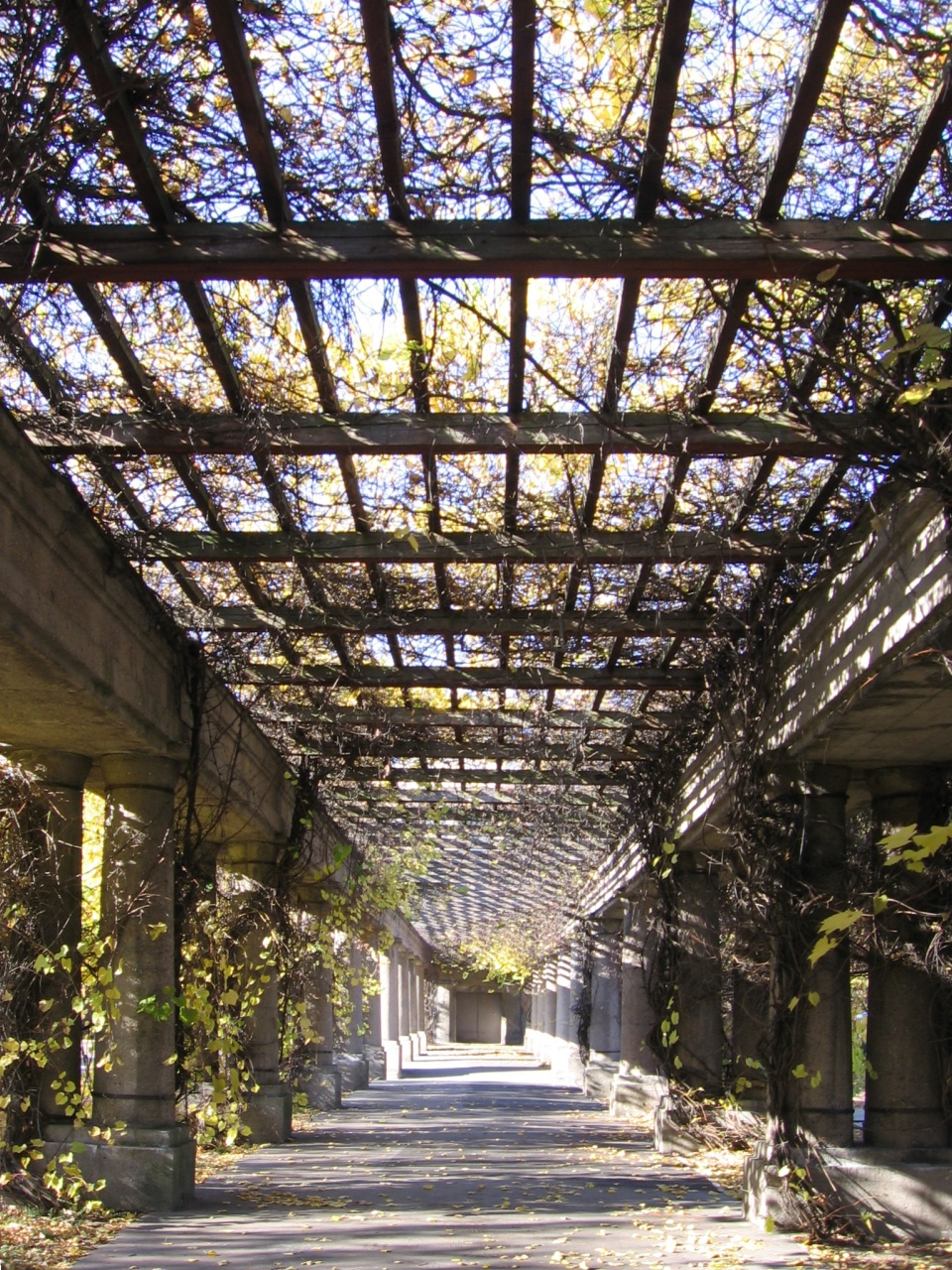 Wrocław, Poland pergola in Park Szczytnicki near Hala Ludowa